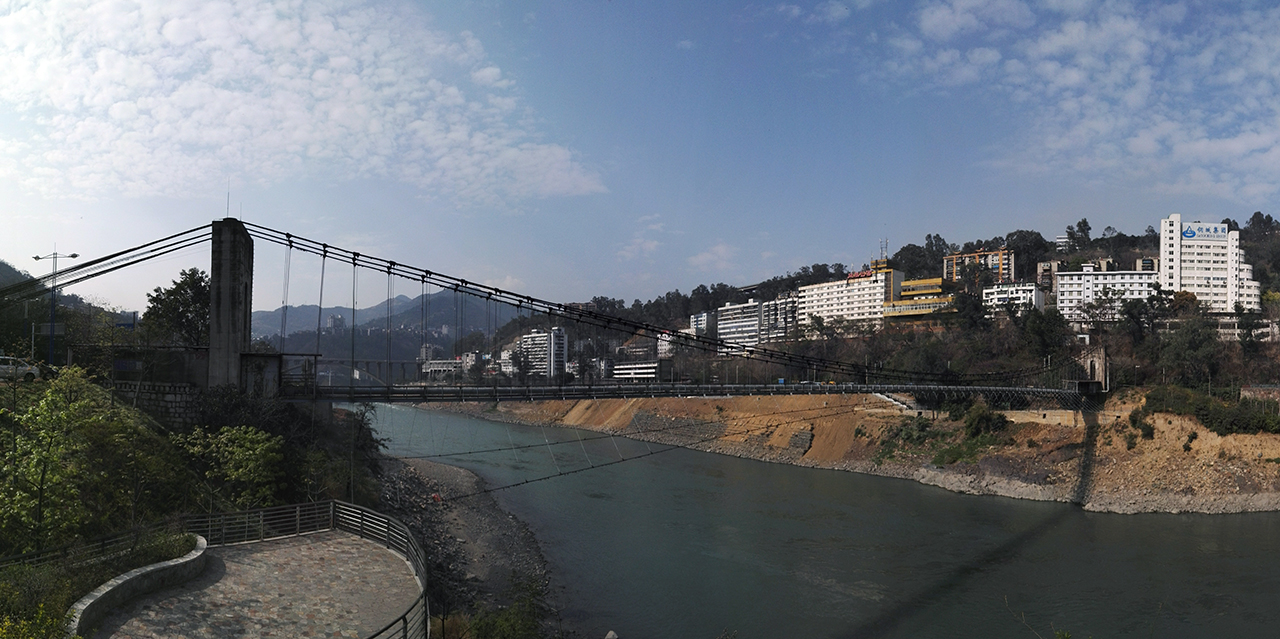 Dukou Suspension Bridge was built in 1965. As the heritage of the Third Front Movement, it is the earliest bridge across Jinsha River in Panzhihua.